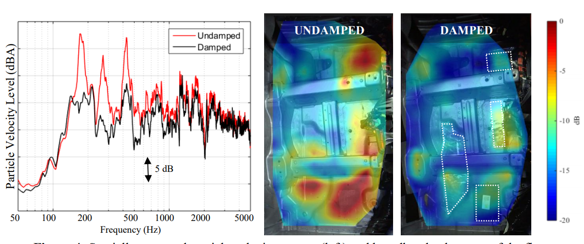 Sound visualization of a car floor with and without damping treatment attached to the structure